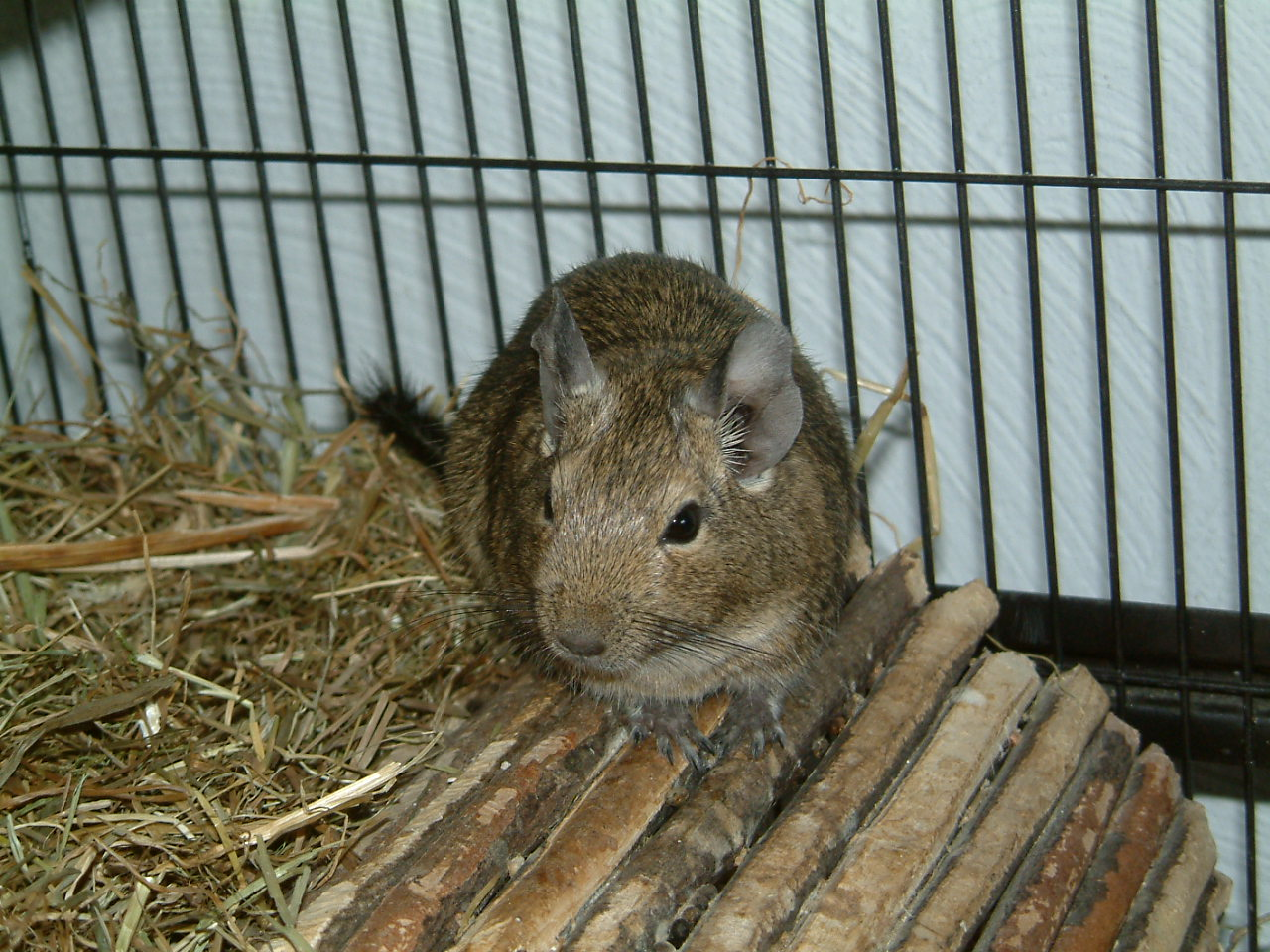 Degu Rudi is looking towards the camera Also known as Rudi "Rudi"